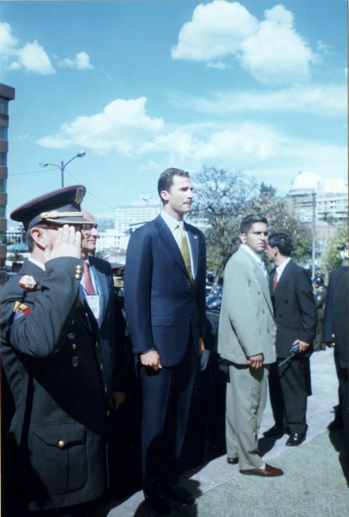 Felipe de Borbón y Grecia visit to Ecuador in 1998.